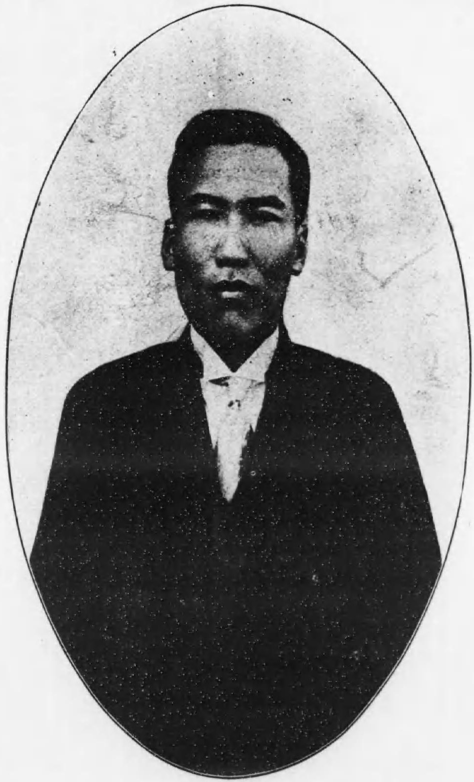 Tomeoka Yukio as the headman of Katō District, Hyōgo prefecture in 1923.